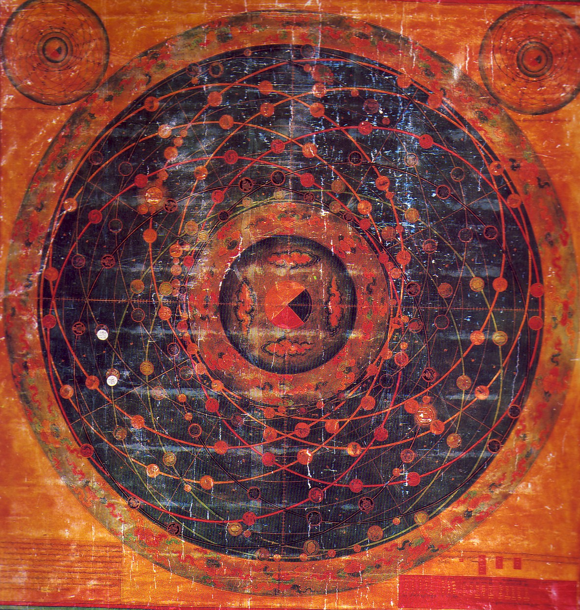 Tibetan astronomical Thangka, painted 1684 (11th rab byung, year shing-byi). The movement of the zodiacal signs and the planets.